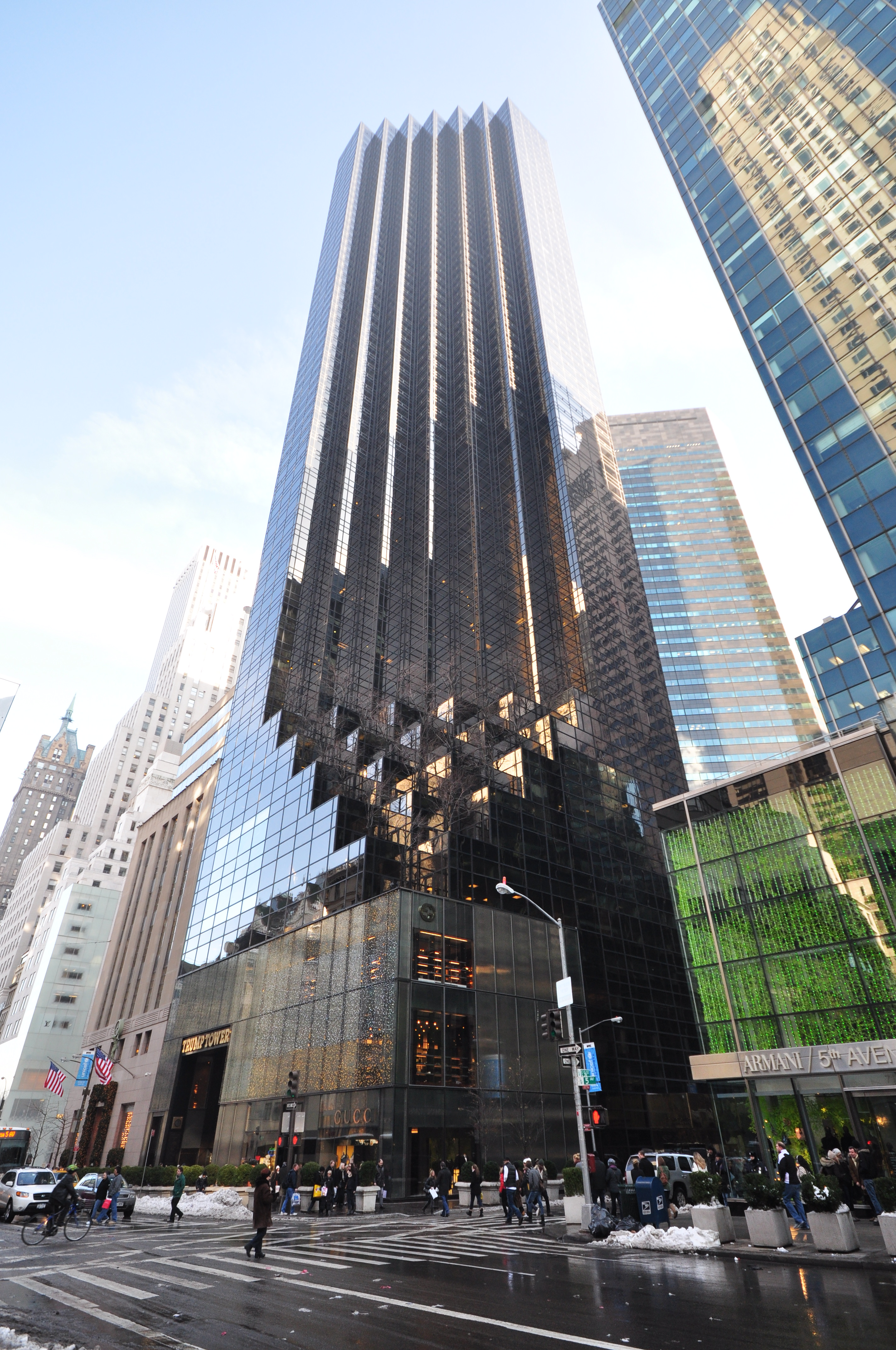 Trump Tower is a 58-story mixed-use skyscraper located at 725 Fifth Avenue, at the corner of East 56th Street in Midtown Manhattan. The Trump Tower is the 52nd tallest building in New York City. The tower is a reinforced concrete, shear-wall/core structure and was the tallest structure of this type in New York City when completed. A concrete hat-truss at the top of the building ties exterior columns with the concrete core. This increases the effective dimensions of the core to that of the building in order to resist the overturning of lateral forces (wind, minor earthquakes, and impacts perpendicular to the building’s height). A similar structure was used for Trump World Tower. Ordinarily a building of that height could not have been built on the small site. By mixing uses (retail, office, and residential), constructing a through-block arcade (connecting to the IBM building to the east), and using the air rights from Tiffany’s flagship store next door, and including the atrium (designed as a “public space” under the city codes at the time), Trump was able to assemble a bonus package that enabled a taller tower. The building’s public spaces are clad in Breccia Pernice, a pink white-veined marble and brass and mirrors are used throughout. This includes the office lobby, off Fifth Avenue, and the five-level atrium which has a waterfall, shops, cafés, and a pedestrian bridge that crosses over the waterfall’s pool. The atrium is crowned with a skylight. In 2006, Forbes Magazine valued the tower at $318 million. Trump Tower is the setting of the NBC television show The Apprentice including the famous boardroom where at least one person will be fired at the end of each episode (actually a television studio inside Trump Tower). It is additionally the official residence for the winners of the three beauty pageants that are co-owned by Donald Trump as the Miss Universe Organization with NBC, which are the Miss Universe, Miss USA and Miss Teen USA during their year-long reign.